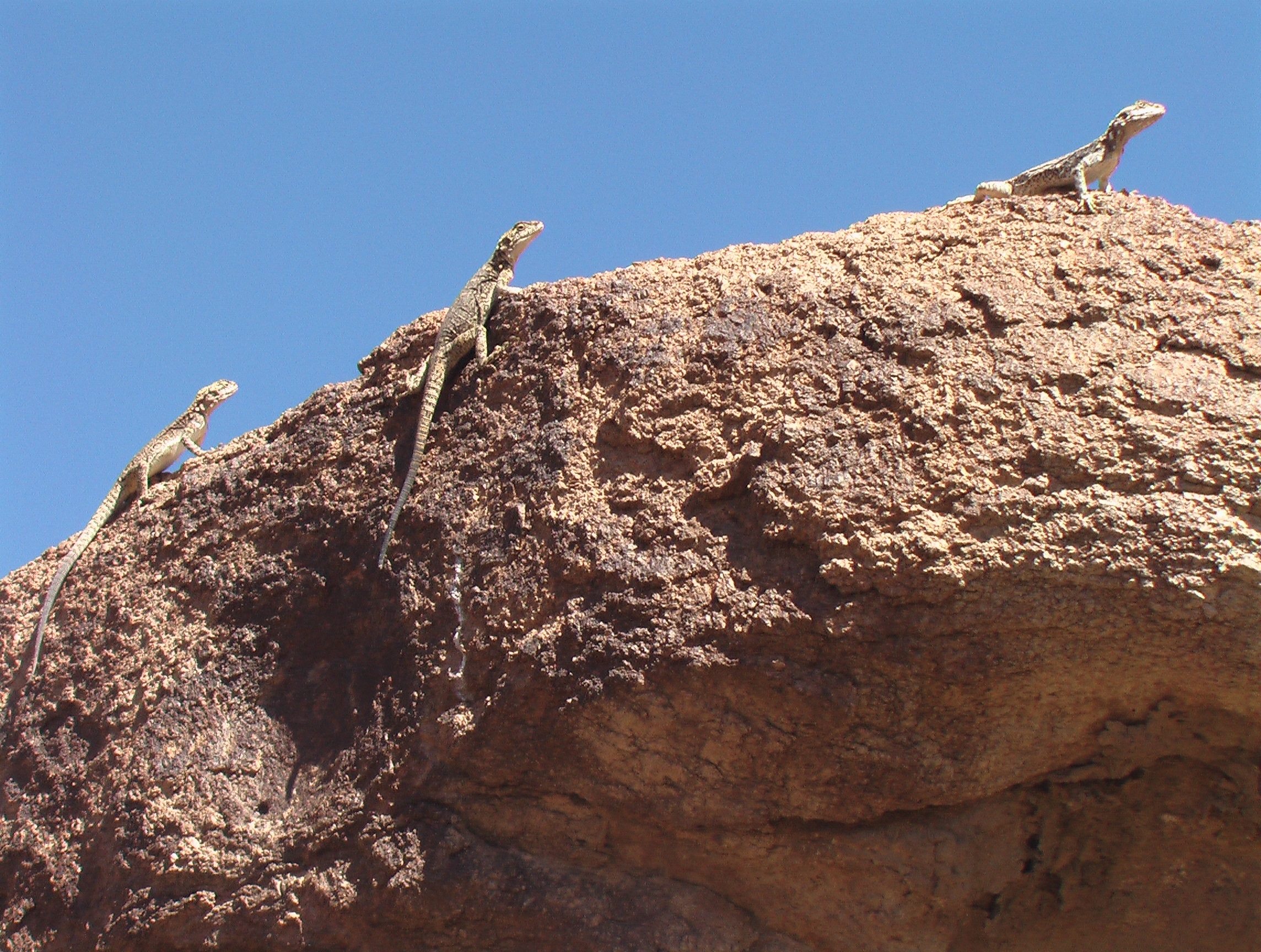 Laudakia stoliczkana, Eej Khairkhan Natural Monument, Tsogt sum, Govi-Altai province, North Gobi Desert, Mongolia in natural conditions